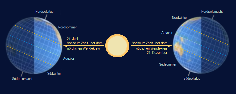 Zenitstand der Sonne